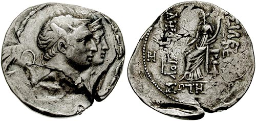 Demetrius I Soter. Tetradrachm. Seleukeia on the Tigris mint. Conjoined heads of Demetrios and his queen, Laodike / Tyche seated left, holding baton and cornucopiae, Nereid supporting throne; monogram and palm to left. Houghton 991 (this coin).